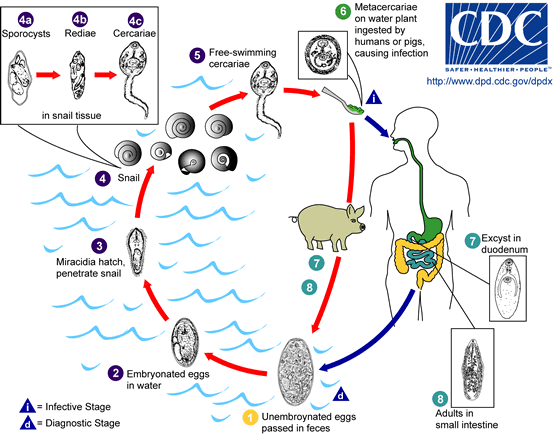 Causal Agent: The trematode Fasciolopsis buski, the largest intestinal fluke of humans. Life cycle of Fasciolopsis buski Immature eggs are discharged into the intestine and stool . Eggs become embryonated in water , eggs release miracidia , which invade a suitable snail intermediate host . In the snail the parasites undergo several developmental stages (sporocysts , rediae , and cercariae ). The cercariae are released from the snail and encyst as metacercariae on aquatic plants . The mammalian hosts become infected by ingesting metacercariae on the aquatic plants. After ingestion, the metacercariae excyst in the duodenum and attach to the intestinal wall. There they develop into adult flukes (20 to 75 mm by 8 to 20 mm) in approximately 3 months, attached to the intestinal wall of the mammalian hosts (humans and pigs) . The adults have a life span of about one year. Geographic Distribution: Asia and the Indian subcontinent, especially in areas where humans raise pigs and consume freshwater plants.